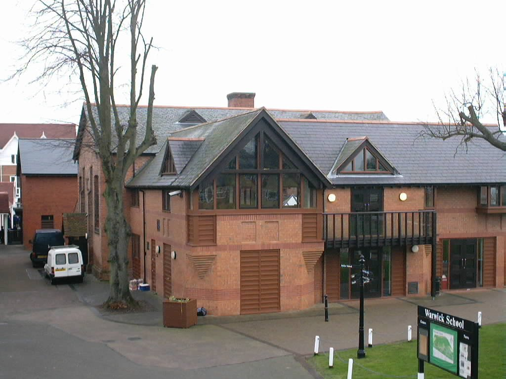 The Sixth Form Centre and Tuck Shop. Warwick School, Warwick, England